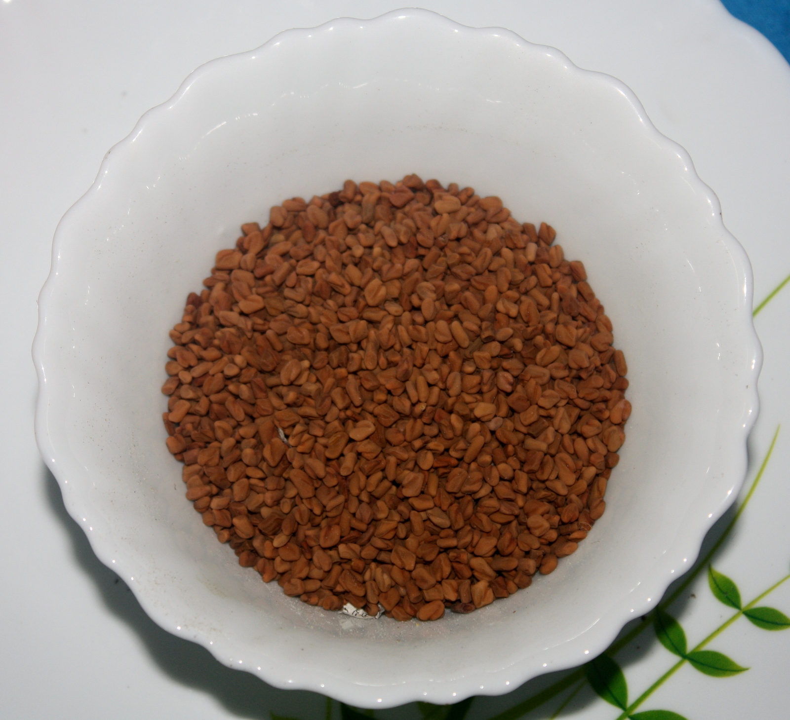 Fenugreek seeds(মেথি),Kolkata, West Bengal, India